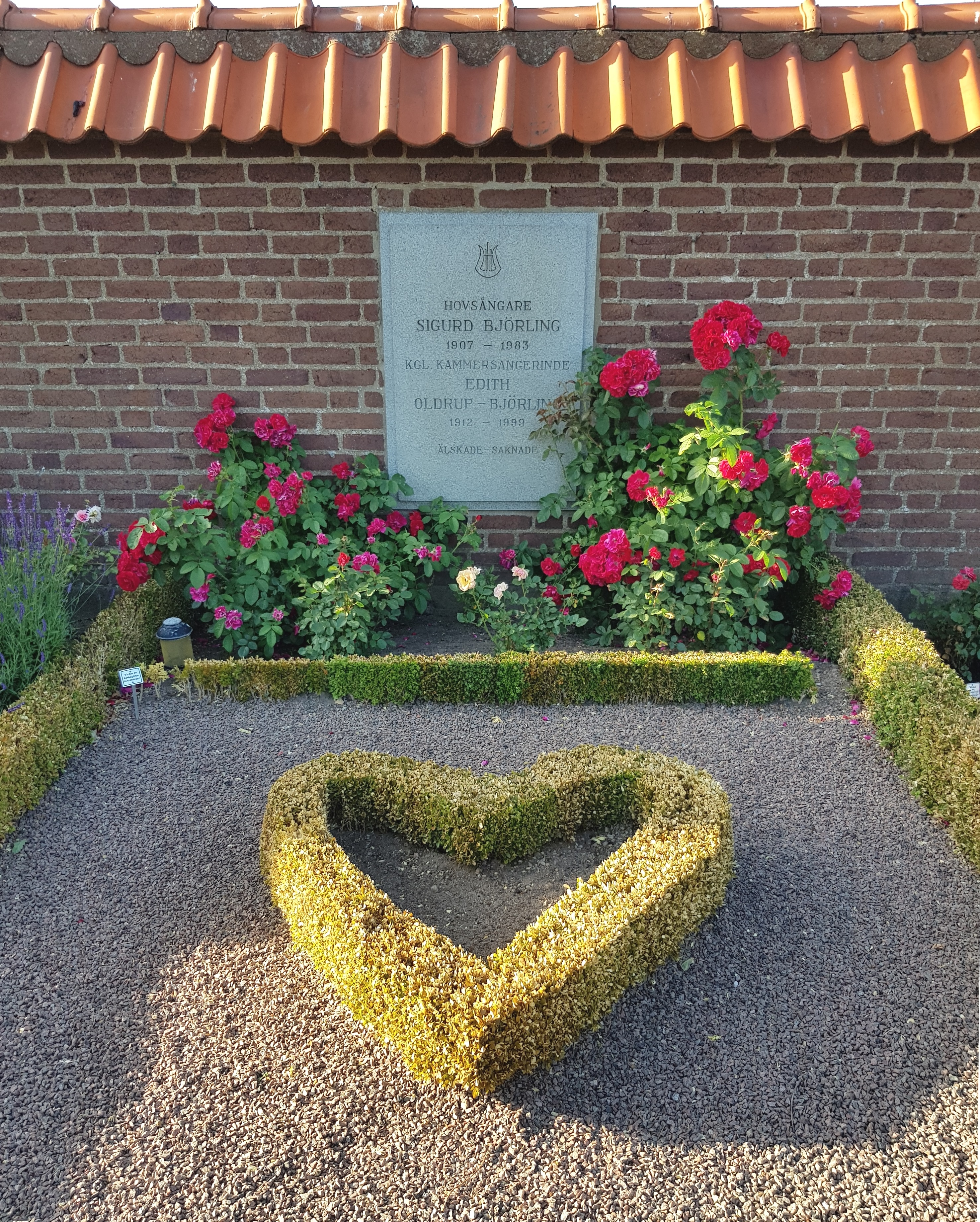 Tomb of Sigurd Björling and Edith Oldrup-Björling at Pålsjö kyrkogård in Helsingborg, Sweden.